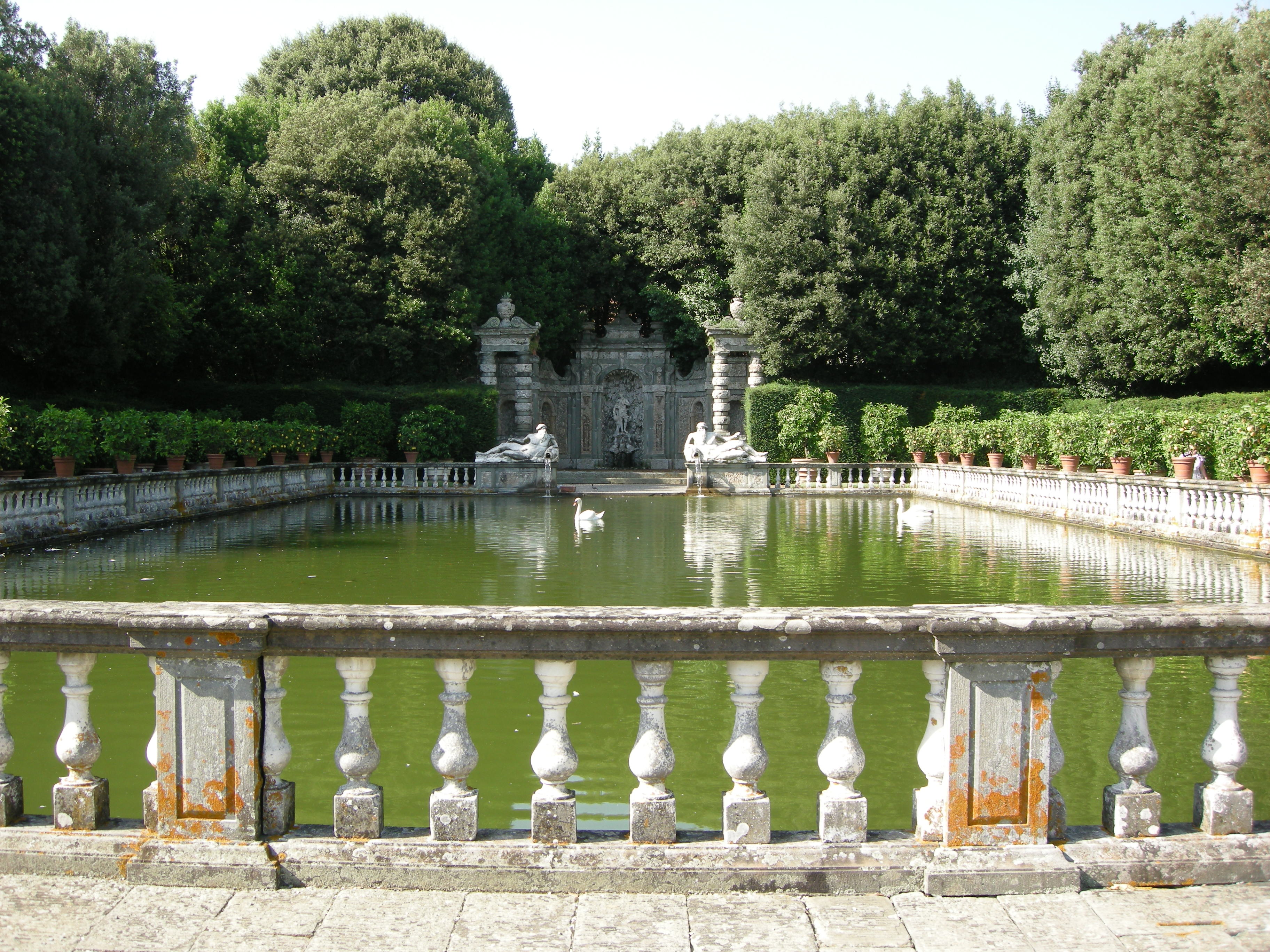 Centuries old Ornamental pool with stone balustrade and sculpted sculpted fountain statues. The potted Lemon garden — giardino dei limoni continues atop the balustrades. In the Italian Renaissance gardens of Villa Reale di Marlia — in the Province of Lucca, Tuscany, Italy.